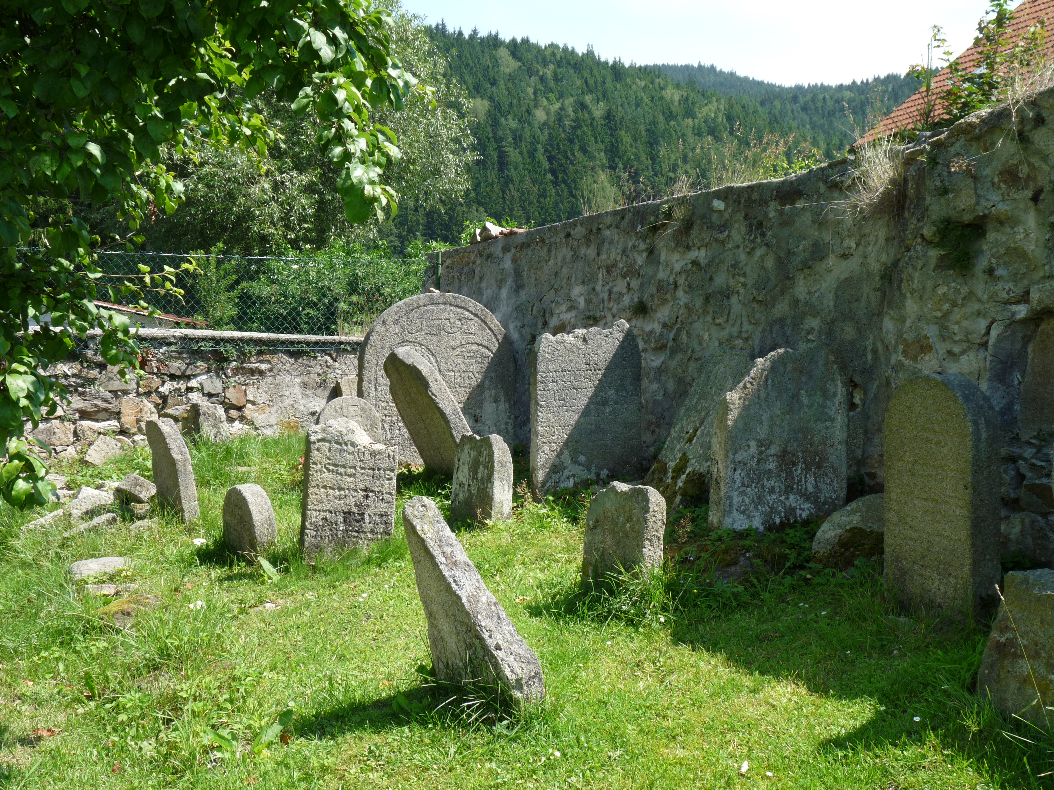 Old Jewish cemetery in the town of Rožmberk nad Vltavou, South Bohemian Region, Czech Republic.